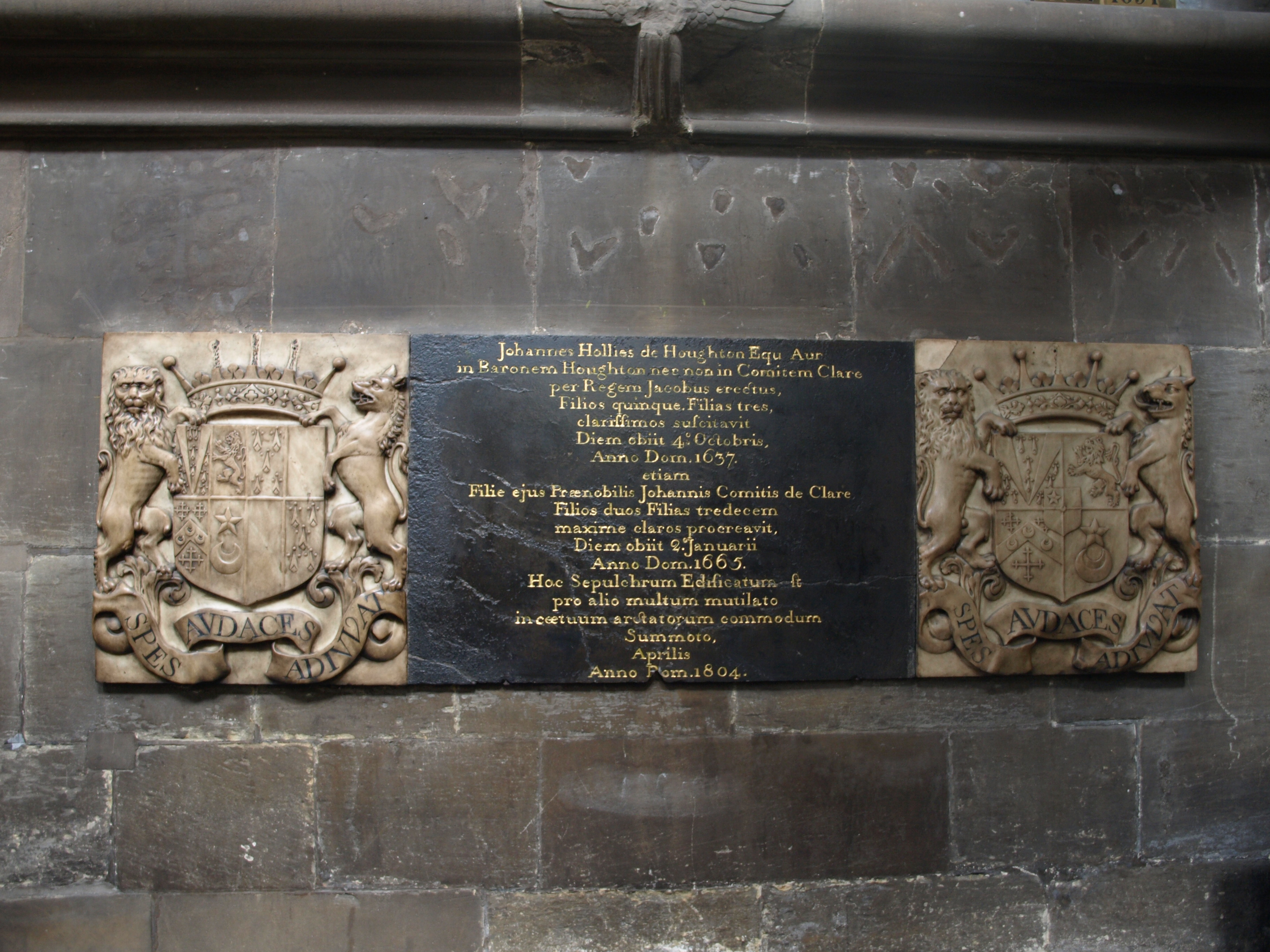 Memorial to the First and Second Earls of Clare, in St. Mary's Church, Nottingham